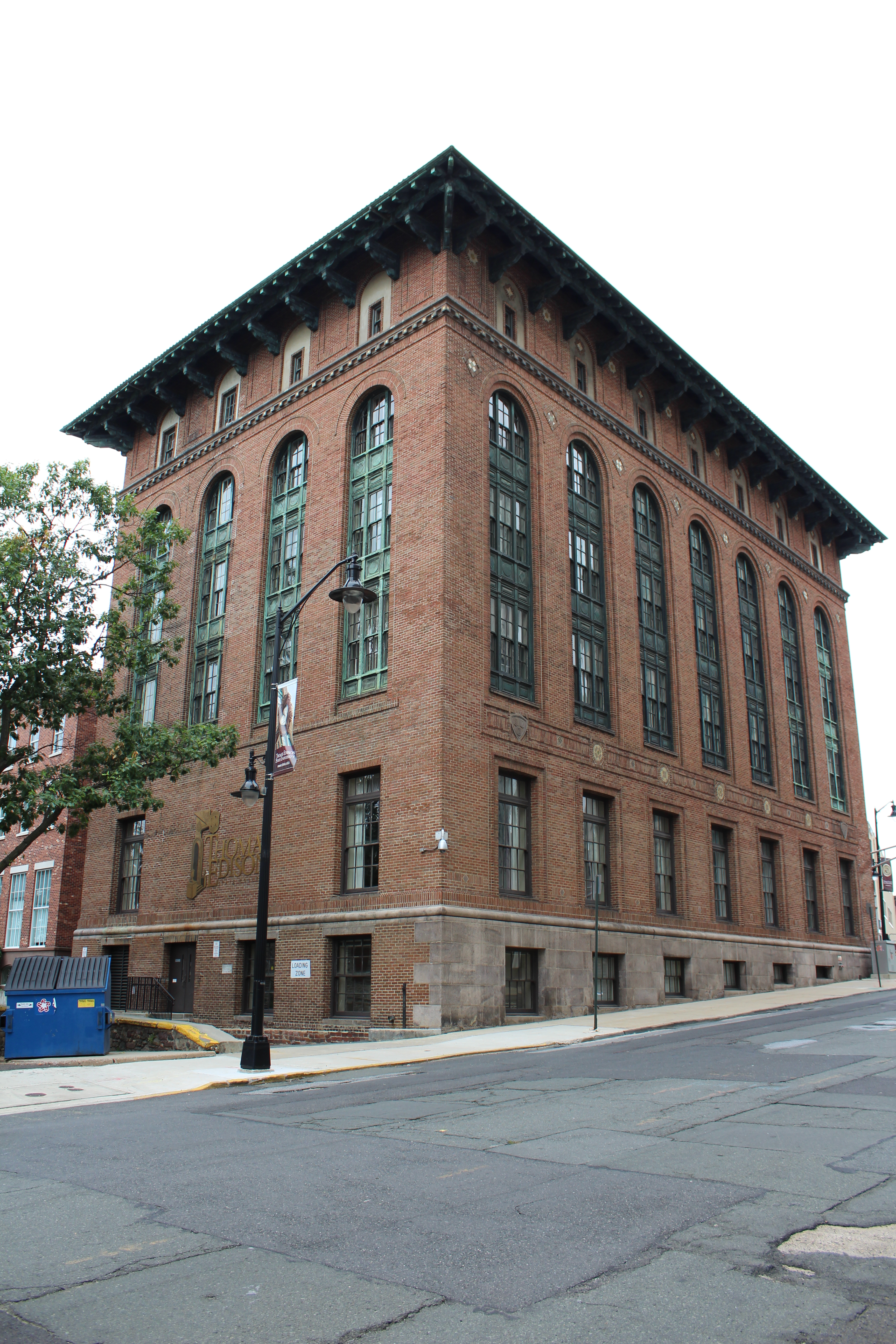 Thomas Edison State University 101 W State St, Trenton, NJ 08608 Object location40° 13′ 13.33″ N, 74° 46′ 07.93″ W